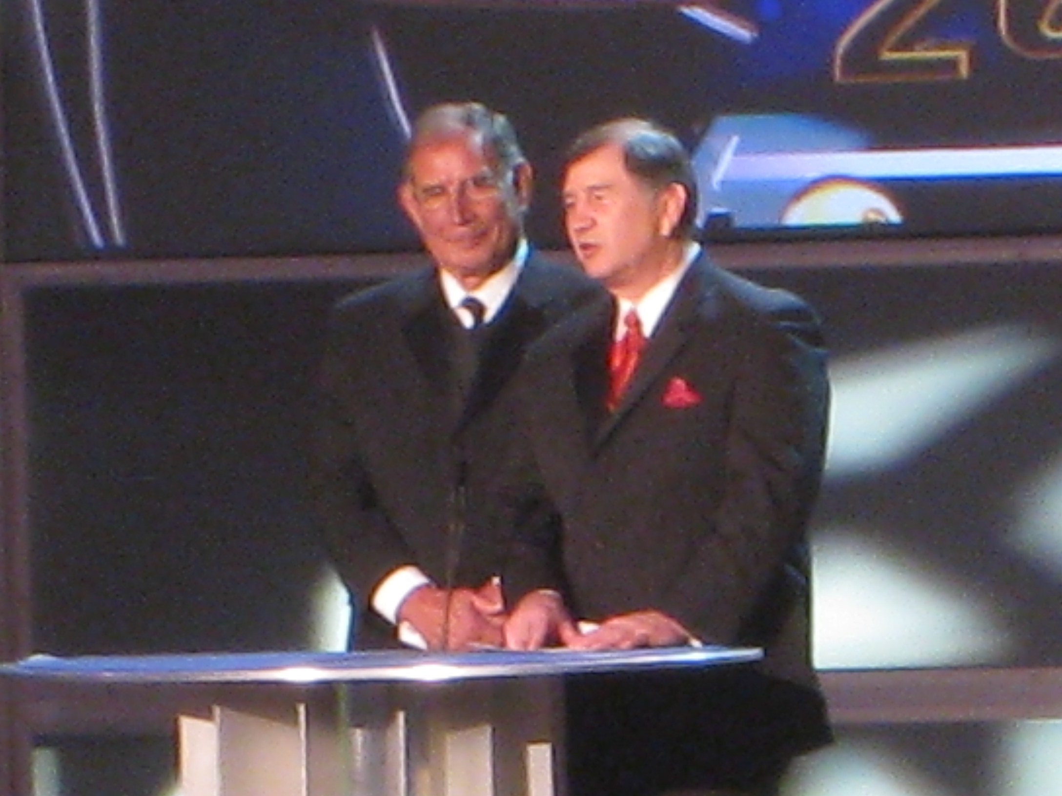 The Brisco Brothers (Jack, left, and Gerald, right) making their acceptance speech at the 2008 WWE Hall of Fame ceremony on March 25, 2008.